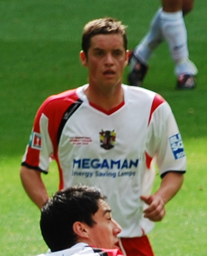 Gary Mills. Image cropped from original at flickr.